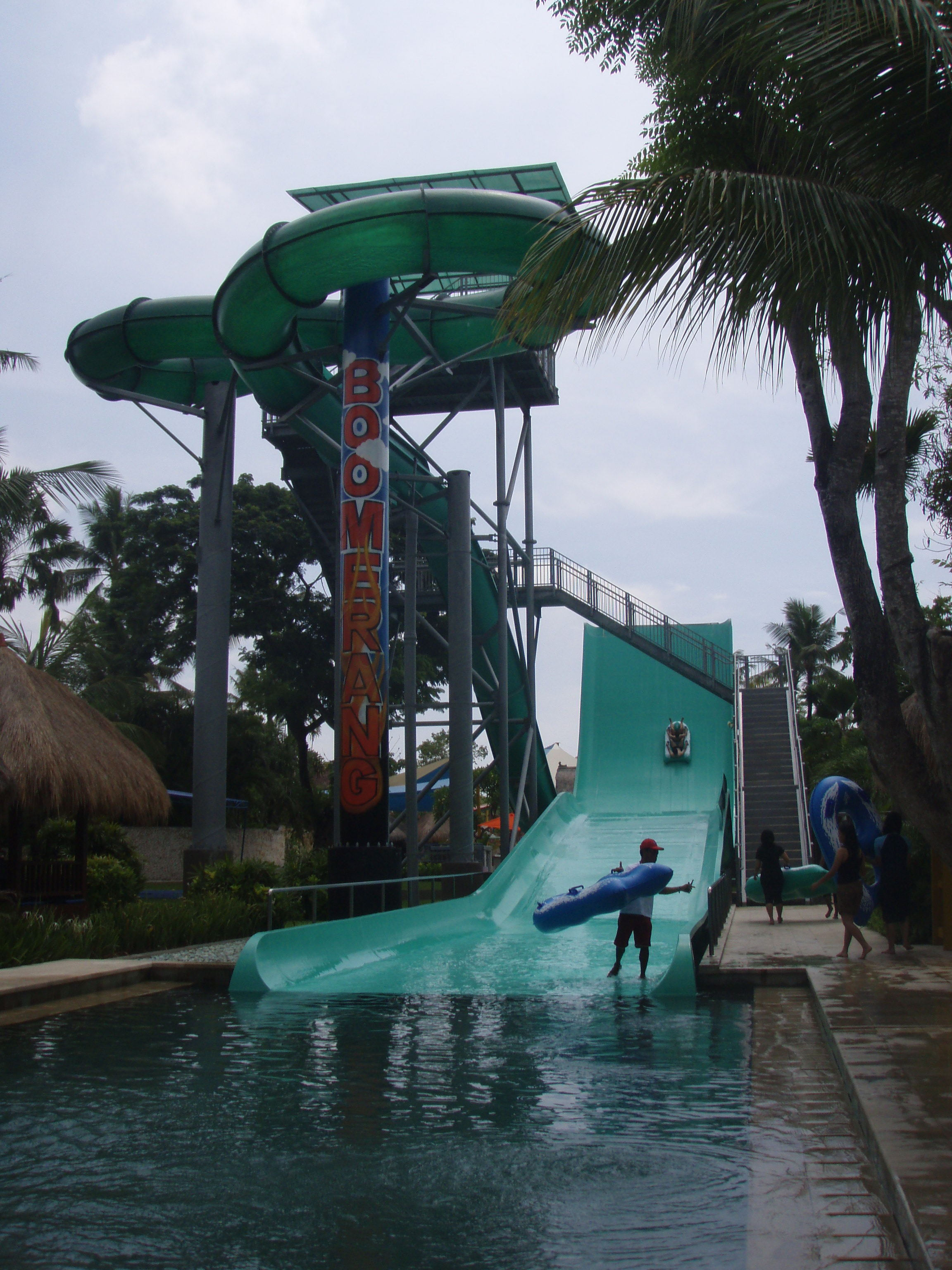 Waterbom Park: The Boomerang at Waterbom Park